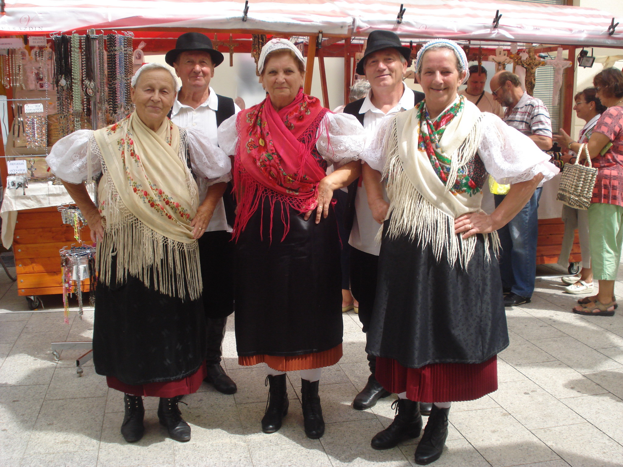 Traditional folk costume of Medjimurie County, northern Croatia